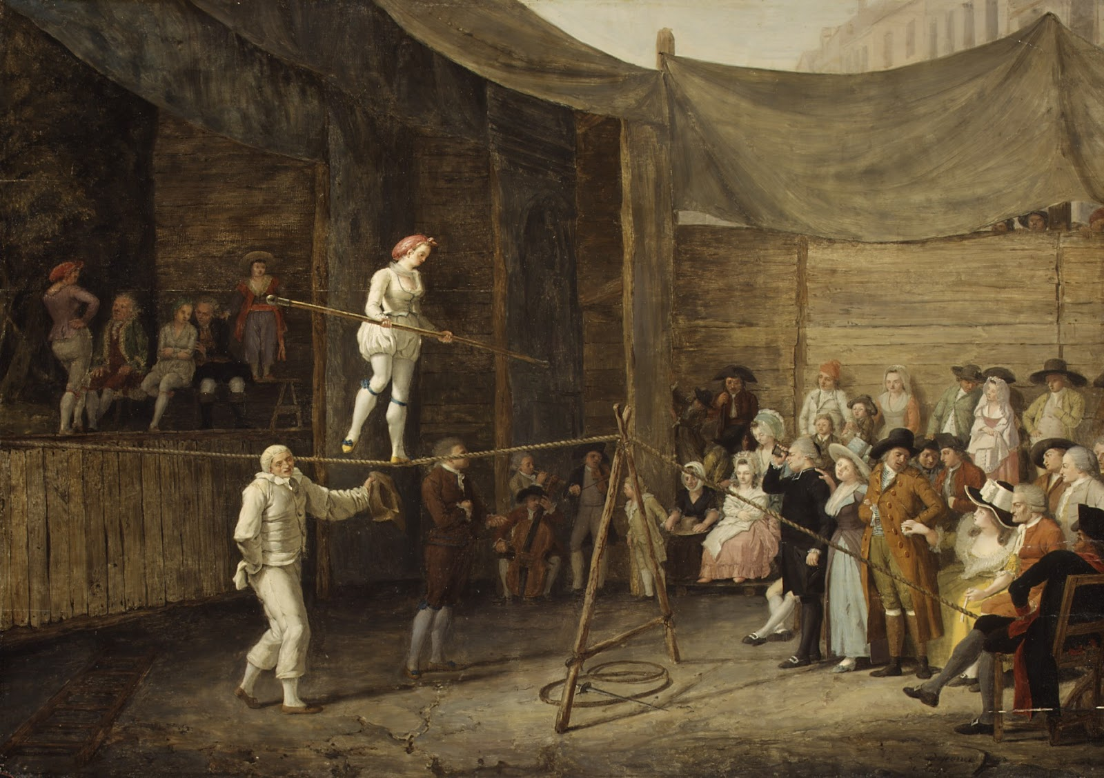 The rope dance